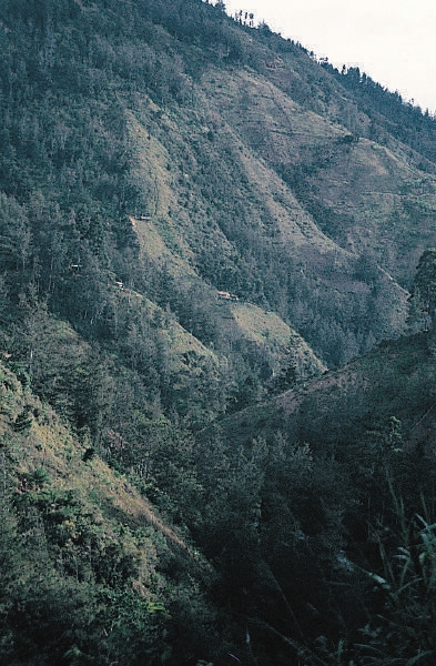 In spite of its appearance, this is one of he most densely populated parts of Papua New Guinea. All the land in this view of Chimbu Gorge, in the rugged Highalnds, is being used productively for cultivation, hunting or gathering.